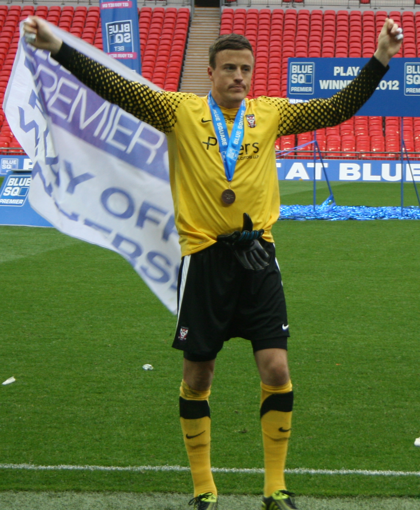 Michael Ingham. Image cropped from original at flickr.